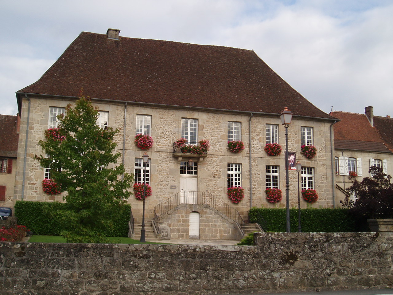 City hall of Felletin